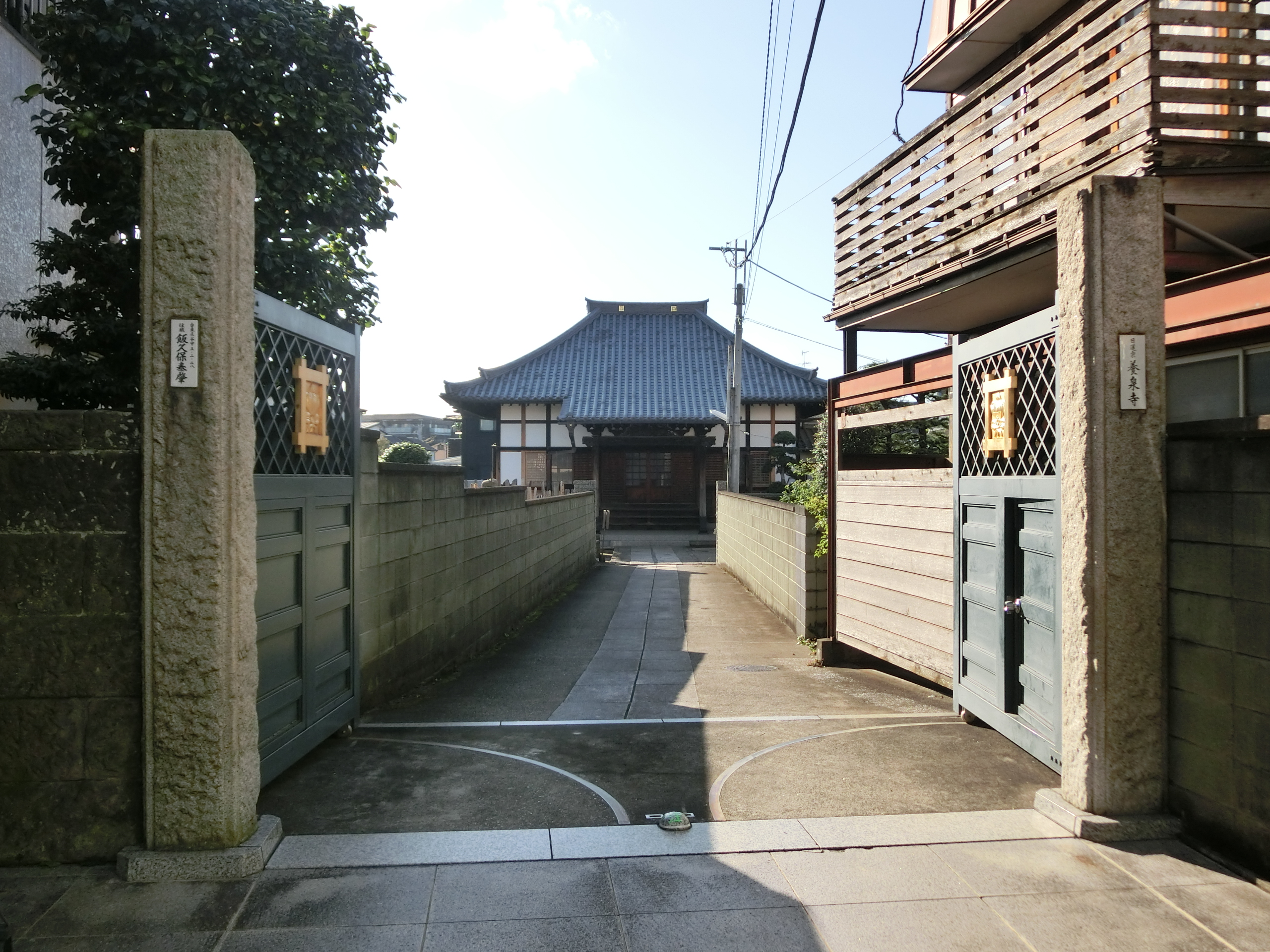 Yosen-ji (Taito)